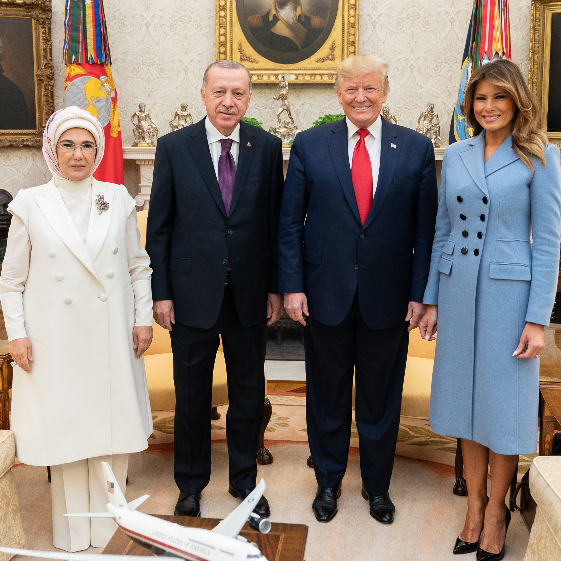 President Donald J. Trump and First Lady Melania Trump pose for a photo with Turkish President Recep Tayyip Erdogan and his wife Mrs. Emine Erdogan Wednesday, Nov. 13, 2019, in the Oval Office of the White House.